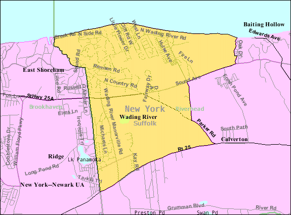 U.S. Census 2000 reference map for Wading River